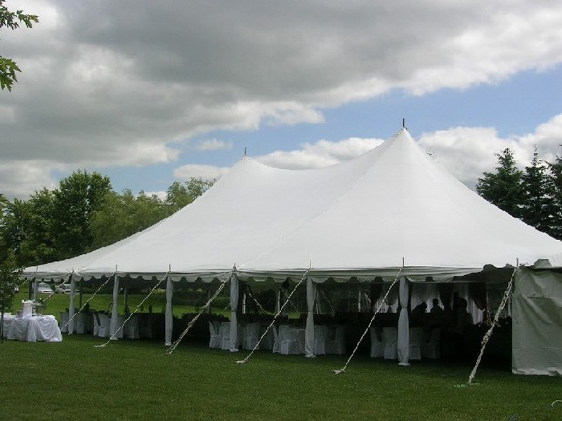 Peg and Pole tents are the traditional marquees and create a great atmosphere for weddings and other functions. This tent design has been used for many years. You could almost say that it brings a sense of emotional comfort for those who use it.